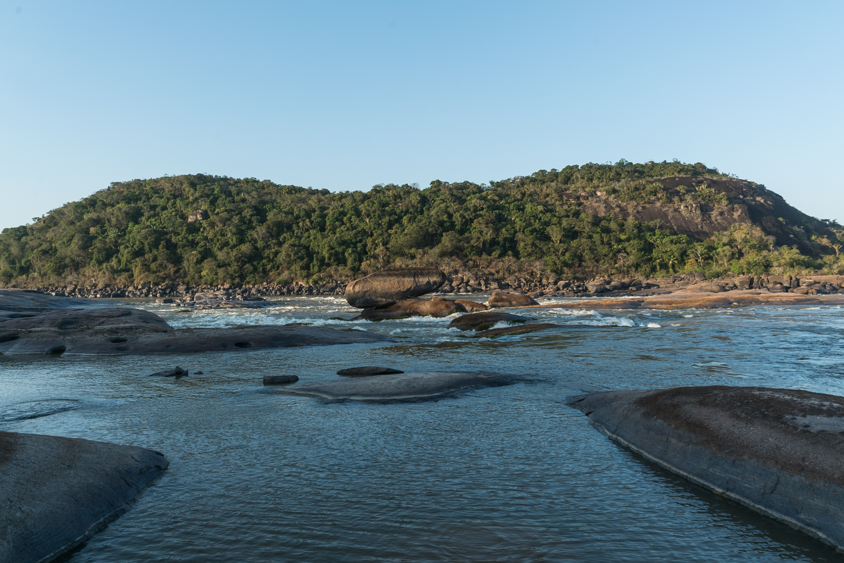 This is an image of the Biosphere Reserve or a Geopark: El Tuparro National Natural Park